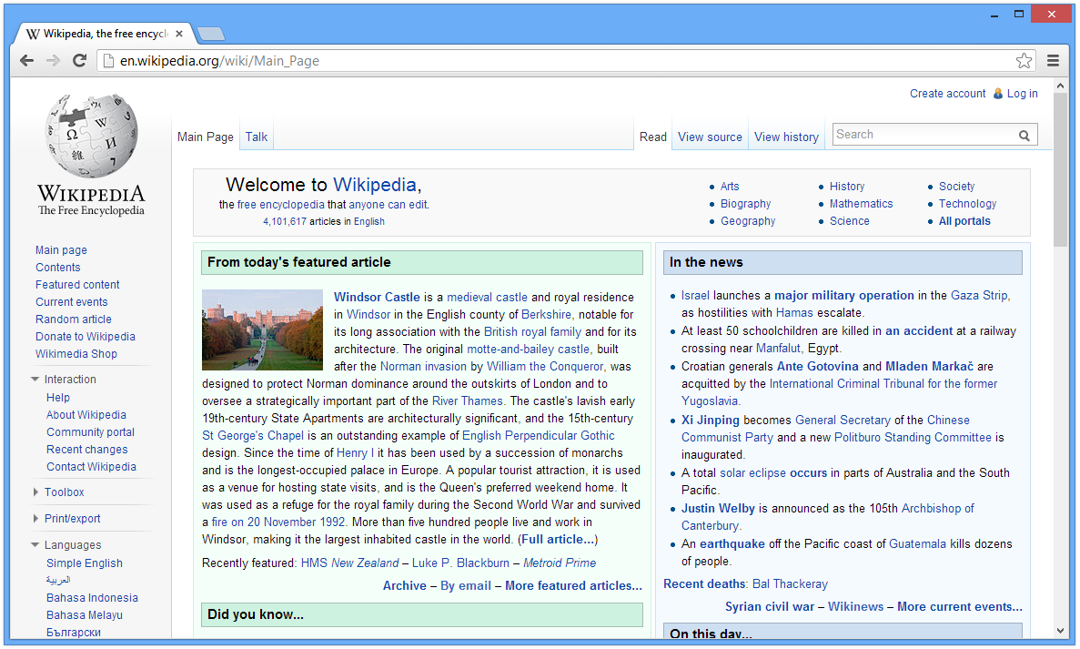 Google Chromium browser